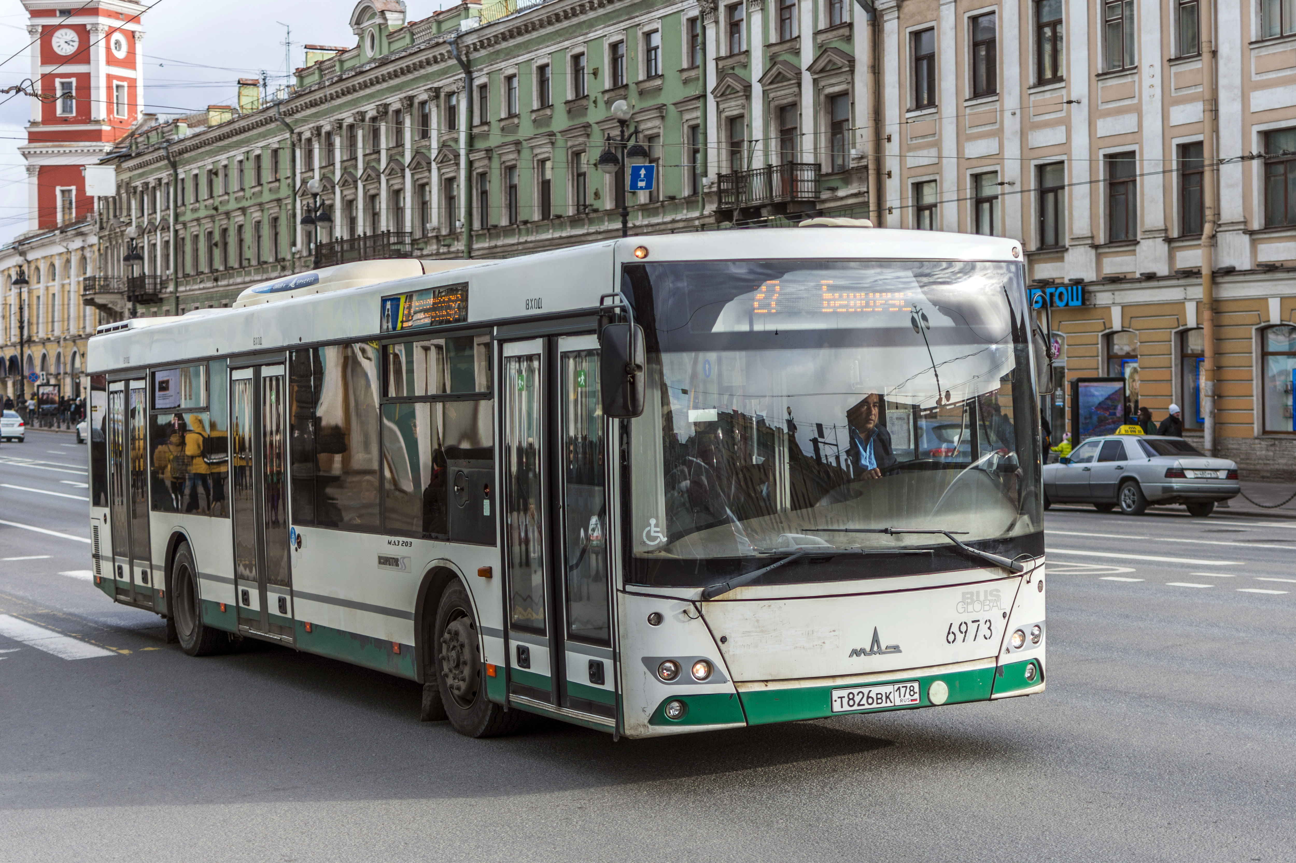 Bus MAZ-203.085 on Nevsky Avenue in Saint Petersburg